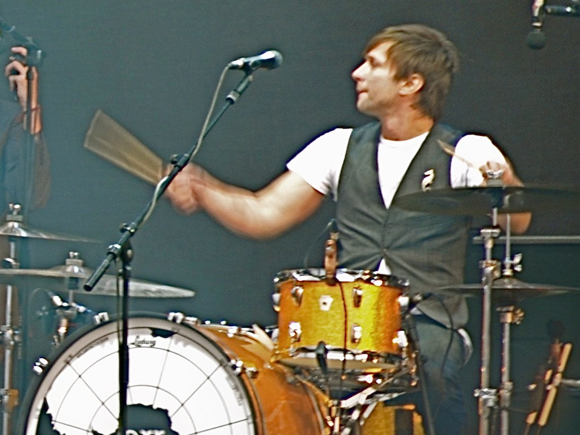 Patrick Keeler of The Raconteurs playing at The Reading Festival in August 2008.